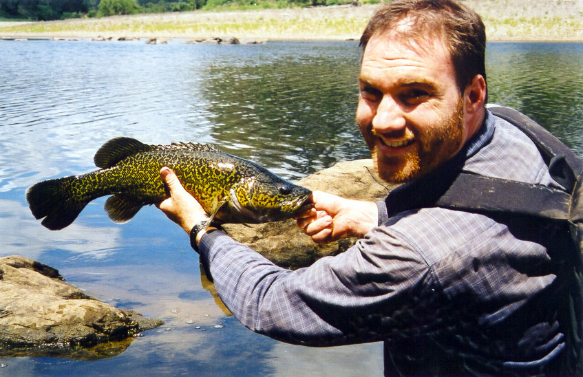 A small Eastern freshwater cod that took a lure intended for an Australian Bass; a common occurrence in several waterways. The nick in the tail suggests this cod has received a territorial bite from a larger, more dominant cod. This protected fish was carefully released, as required by law. January 2000. Codman 01:08, 25 September 2005 (UTC)